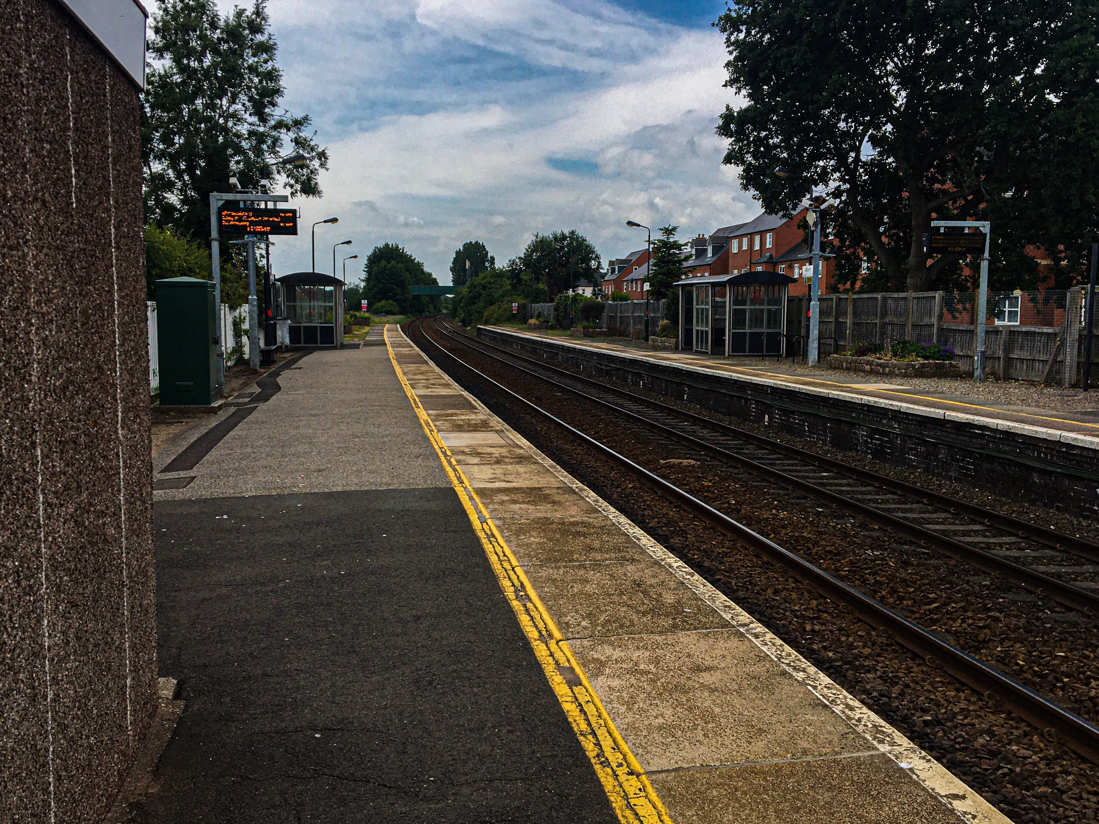 Wem railway station, Wem, Shropshire, England. June 2020. The station is situated between Yorton and Prees on the Welsh Marches line. The station is served by roughly two-hourly services between Shrewsbury and Crewe.